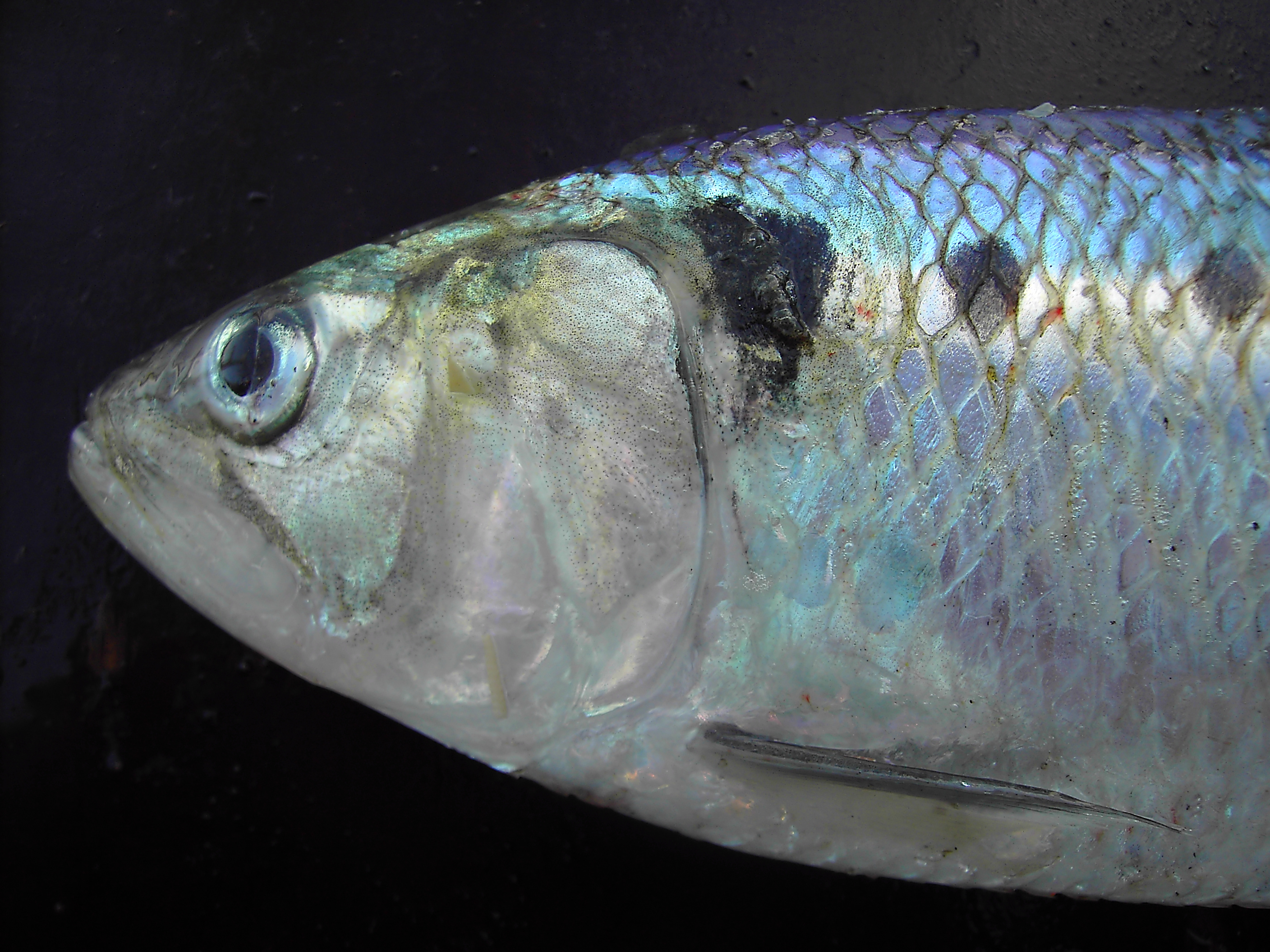 Head of a Twaid shad. Image taken in the lab on board of RV Belgica at Westdiep.